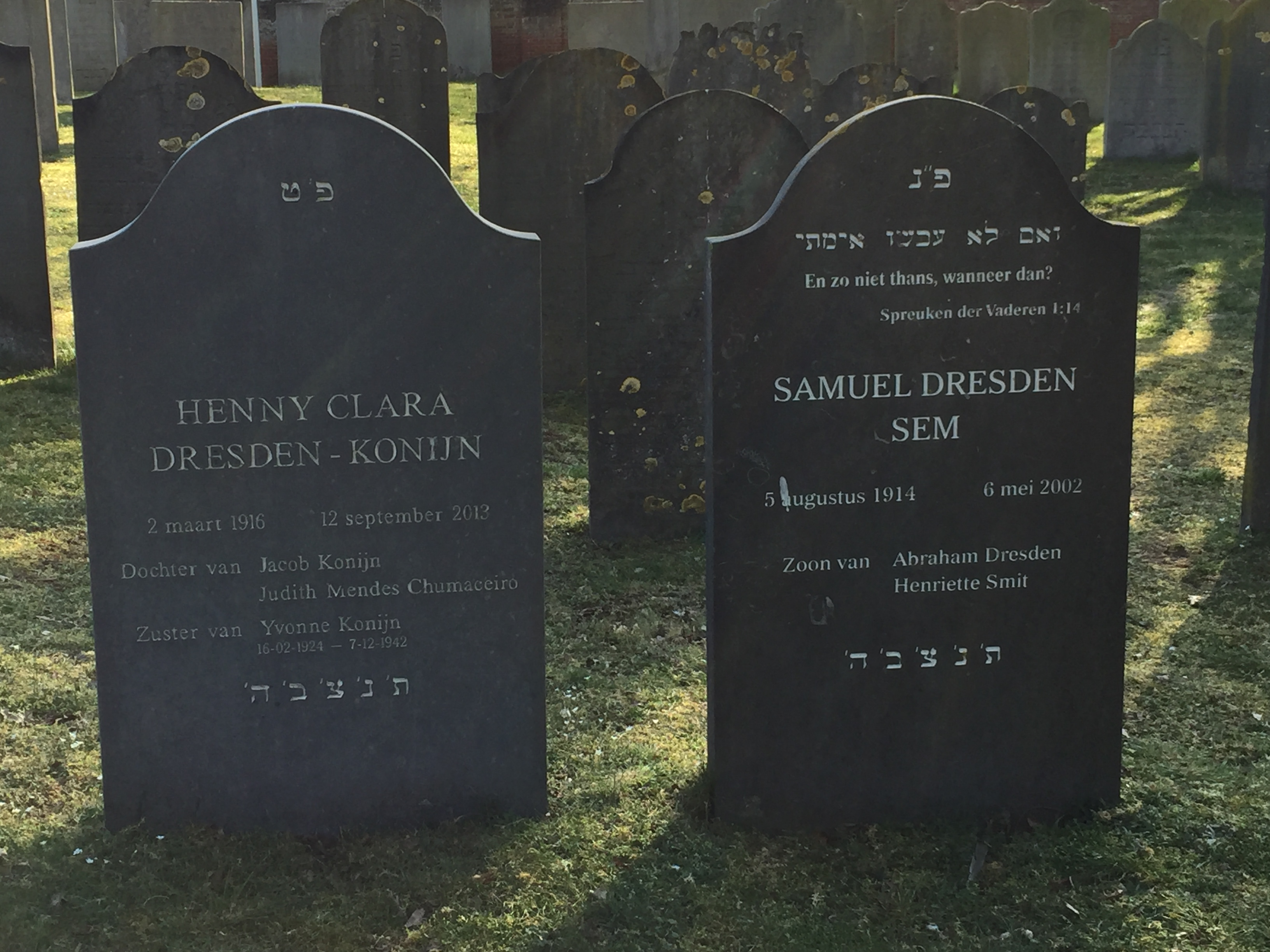 Jewish cemetery Katwijk